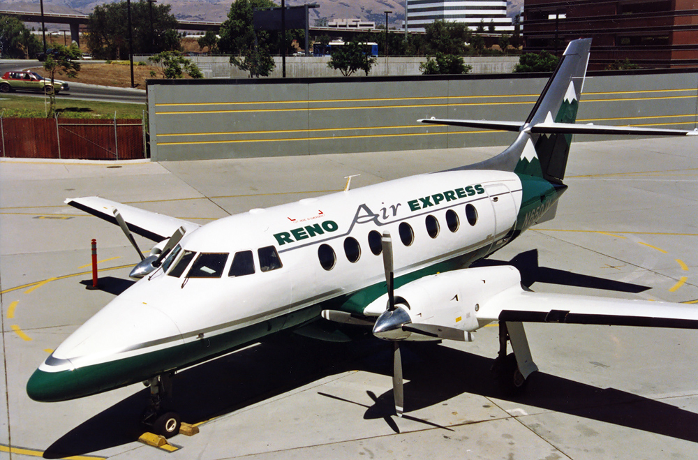 Reno Air Express BAe Jetstream 31 N650JX at San Jose International Airport in October 1994.